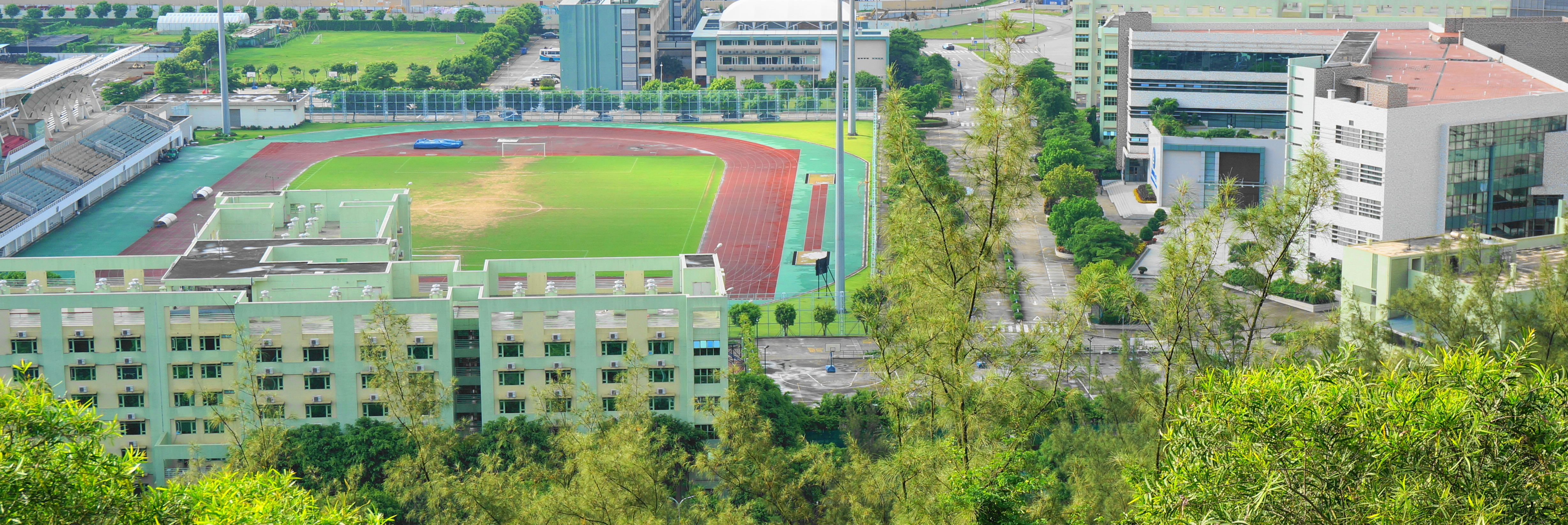 A bird's-eye view of library and Stadium in Macau University of Science and Technology.